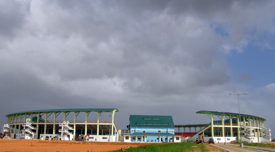 Outside picture of Providence Stadium in Georgetown, Guyana.